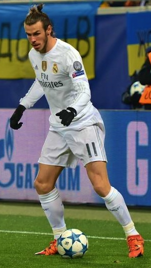 Gareth Bale